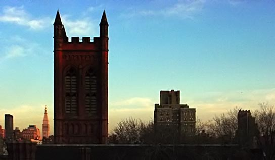 Image:General Theological Seminary.JPG, slightly lens-adjusted, cropped, denoised, and color-adjusted. See also File:CoE Gen Theol Cem 20st jeh.JPG See original for full credits.